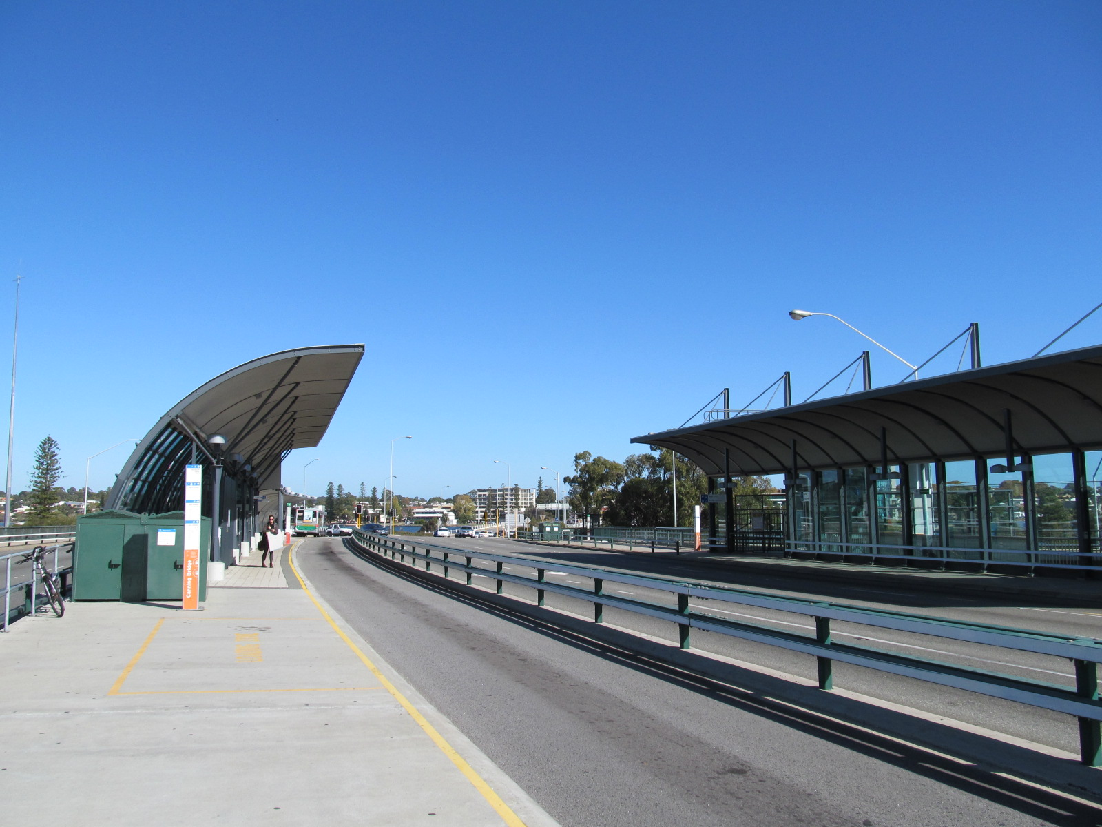 Bus level at the Canning Bridge train station.